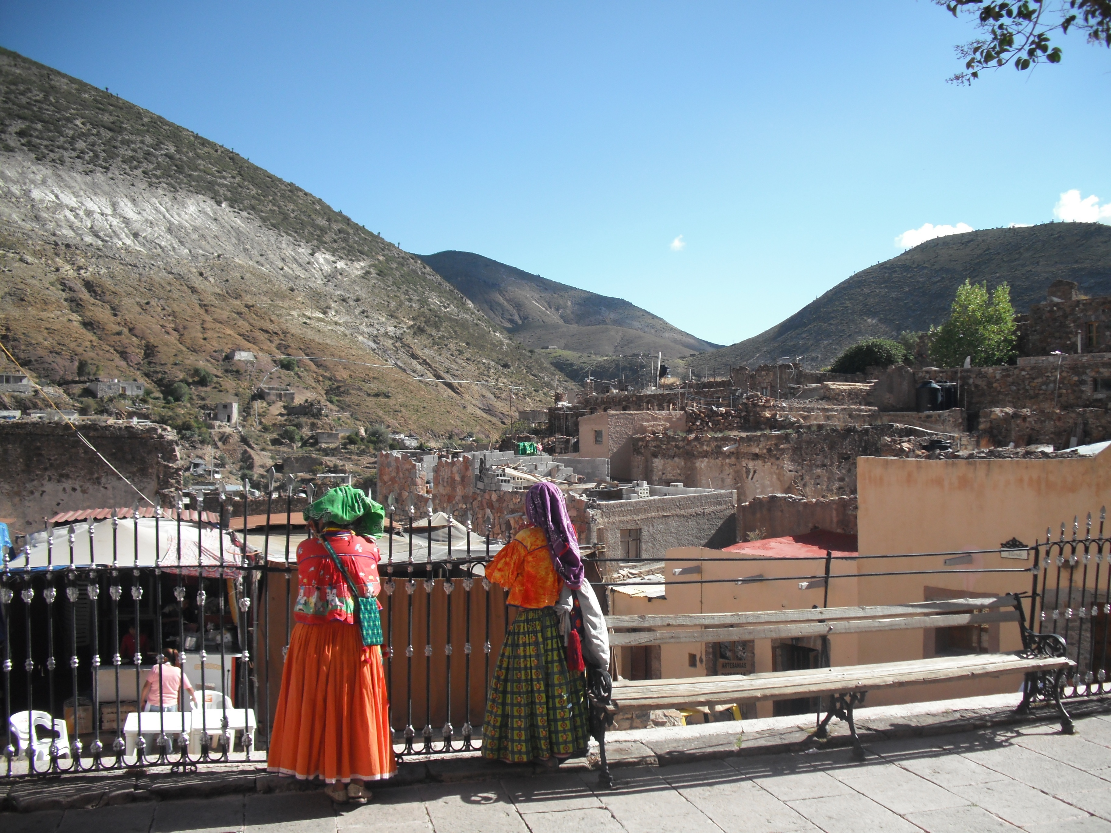 Huichole women in the Plaza de Hidalgo